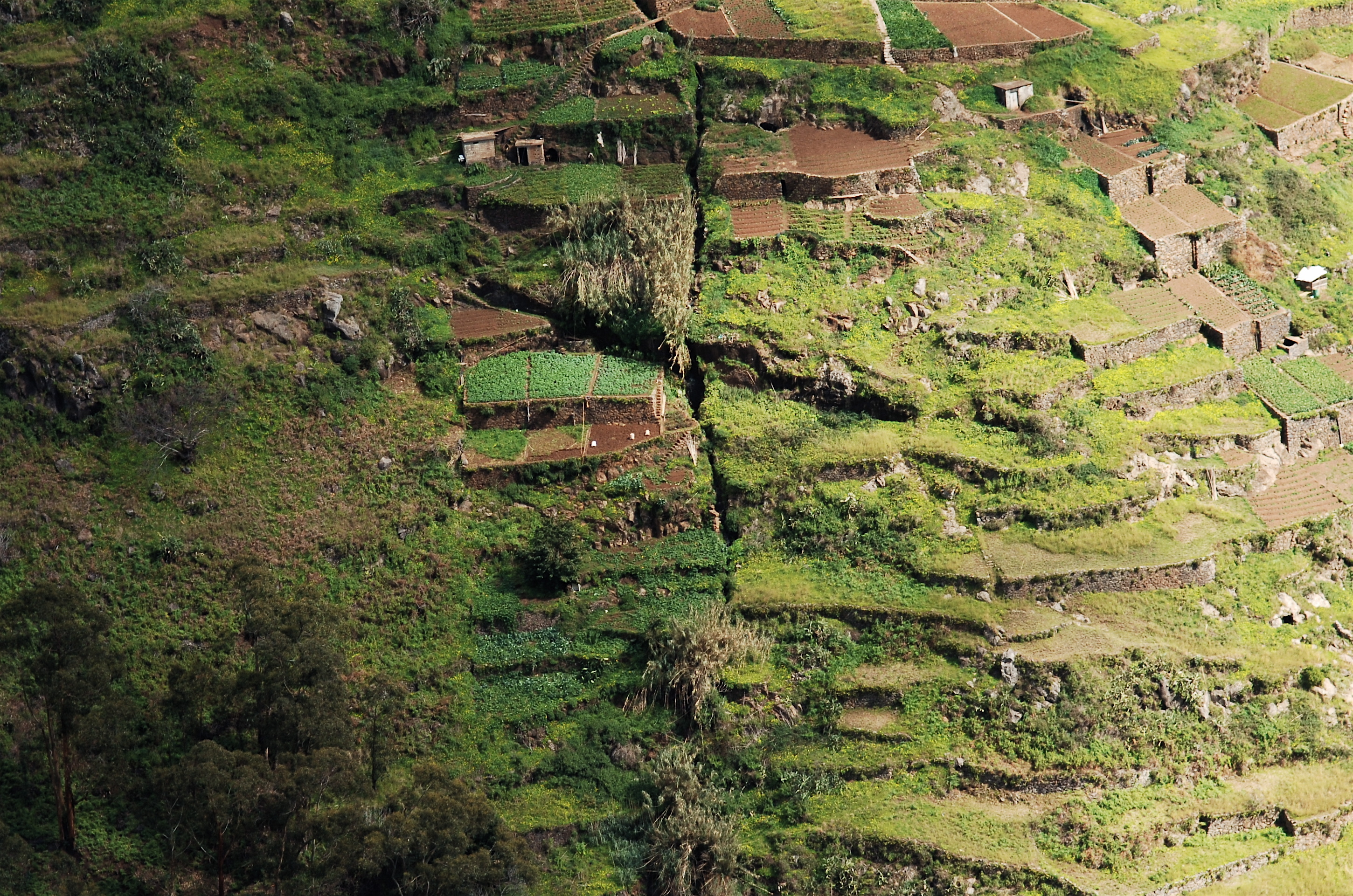 Agricultural terraces in Câmara dos Lobos, Madeira, Portugal.